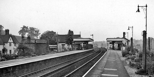 Beeston Castle & Tarporley Station. View westward, towards Chester; Crewe - Chester Main line. Station closed 18/4/66.